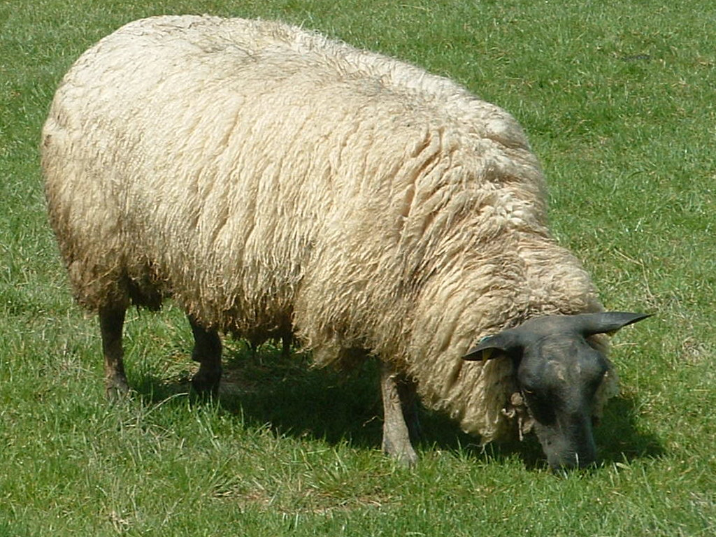 Mouton Bleu du Maine